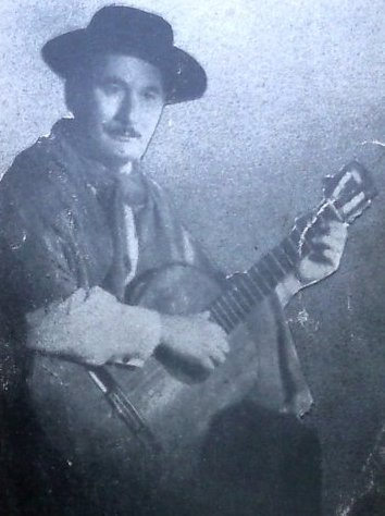 Mario Millán Medina, Folk singer. Chamamé. Corrientes. Argentina